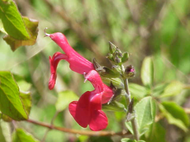 Species: Salvia elegans Family: Labiatae Image No. 1